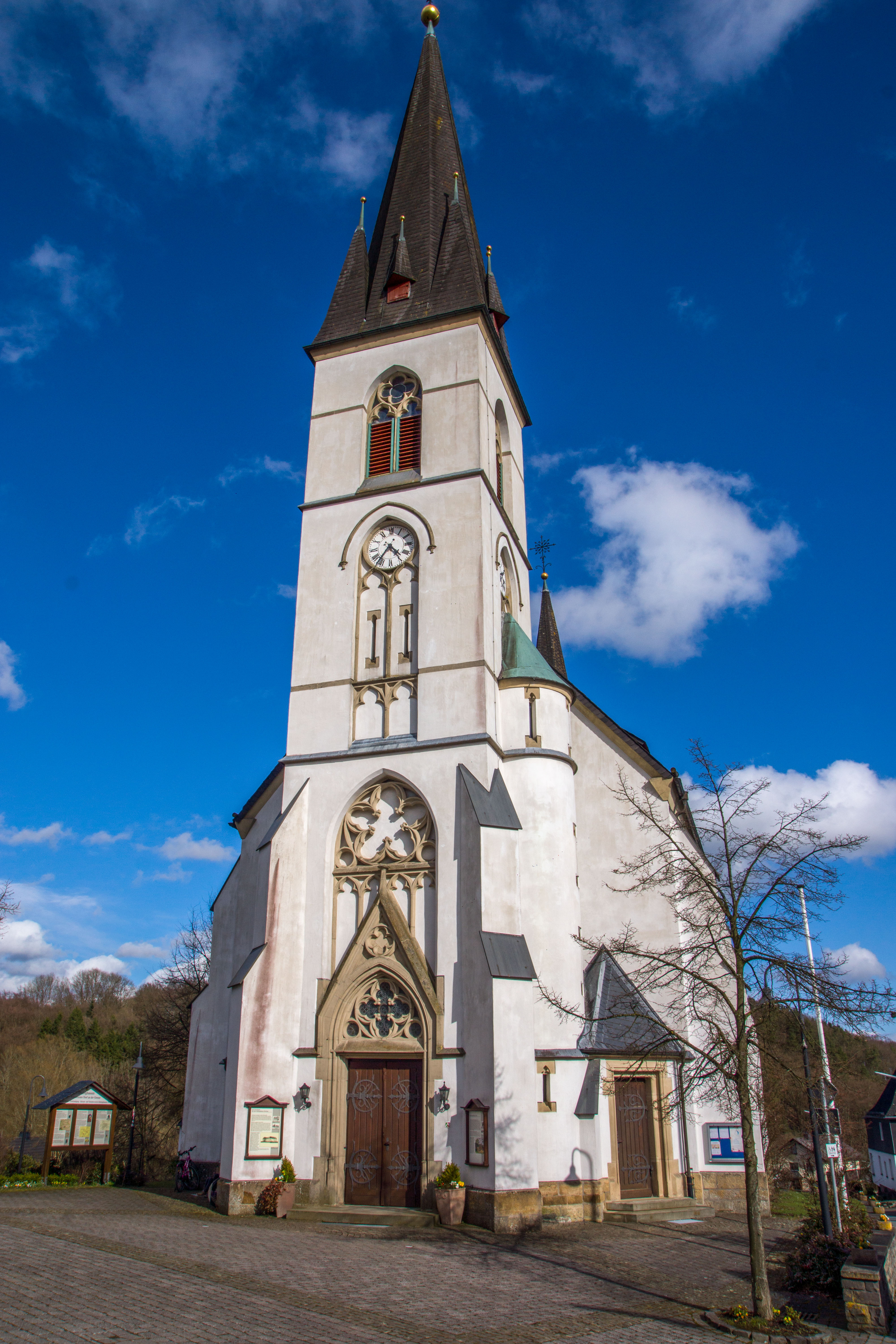 A part of Medebach - Düdinghausen